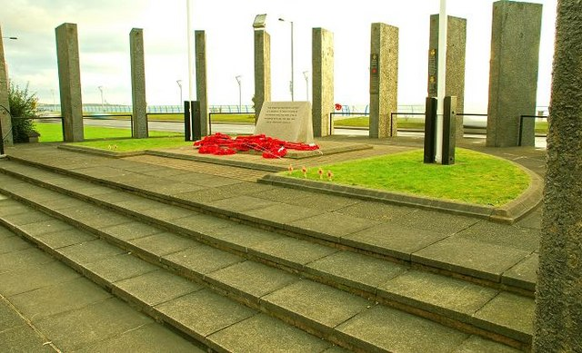 Carrickfergus war memorial Between Joymount and the Marine Highway (background), Carrickfergus war memorial includes a small plinth surrounded by rectangular columns.